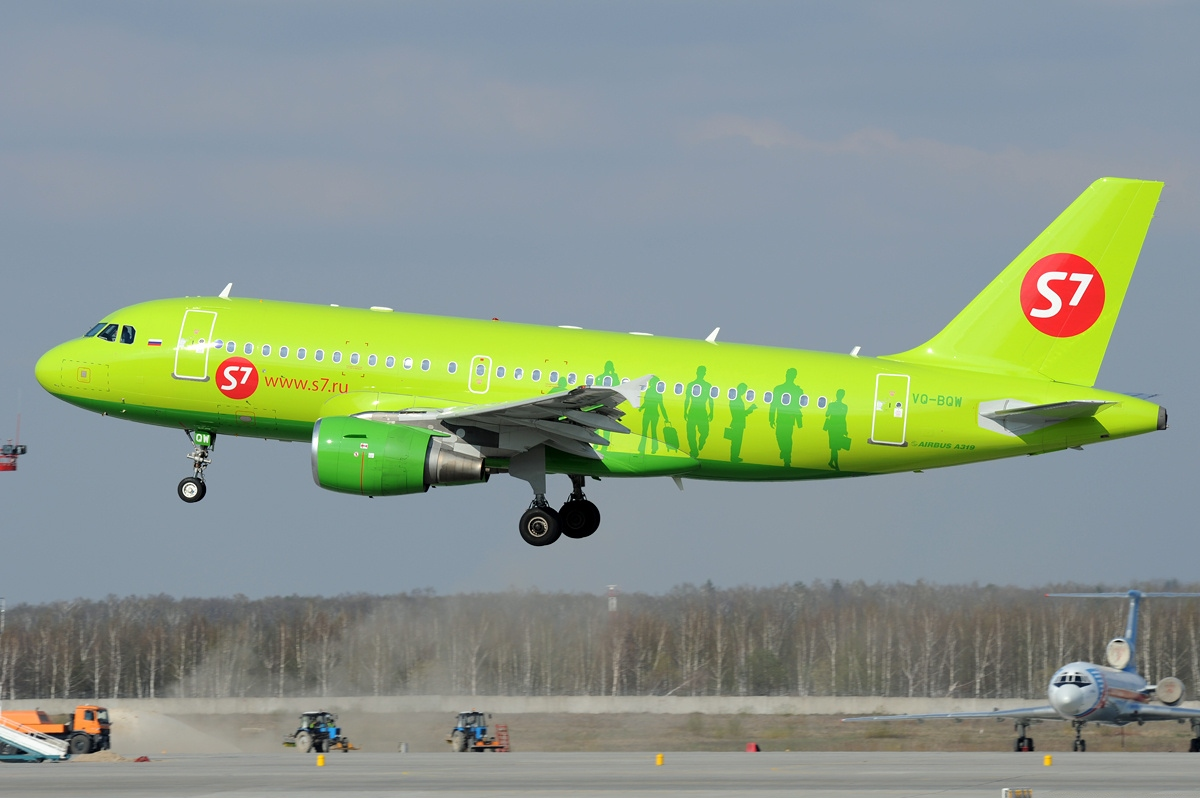 New aircraft for S7 Airlines. "LR"model.